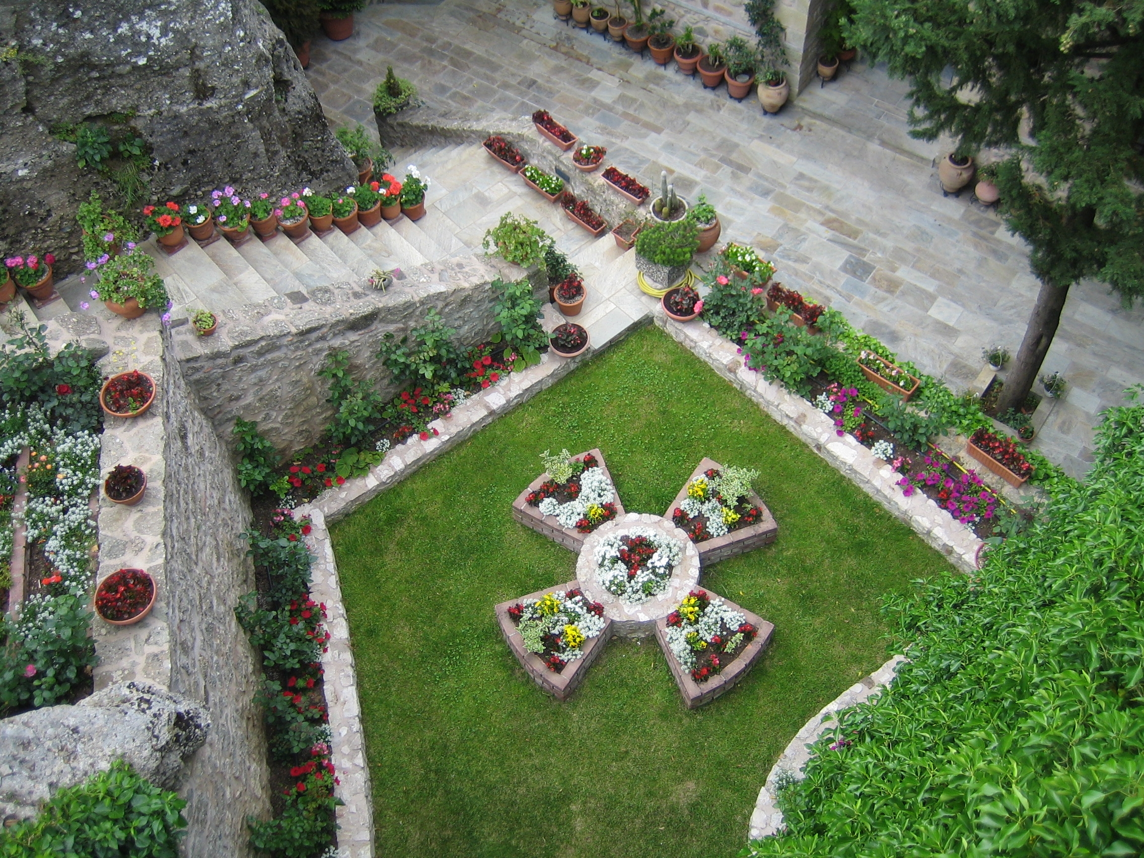 Garden of Moni Rousanou in Meteora.